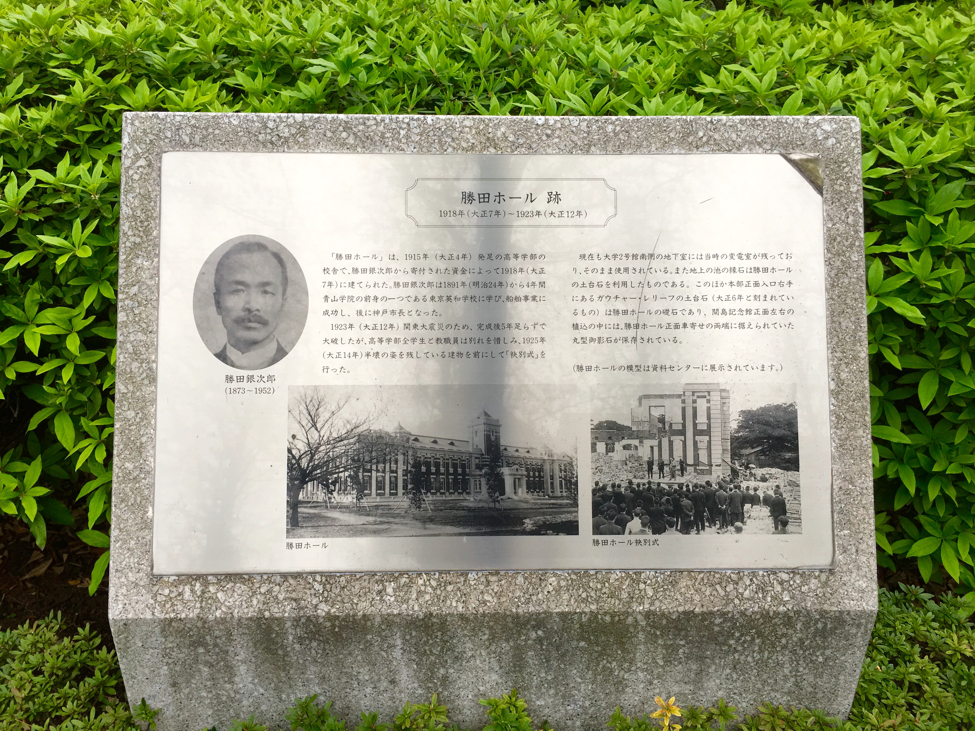 This is the monument of Katsuta Ginjiro, who is japanese politician. The monument is located in the campus of Aoyama Gakuin .